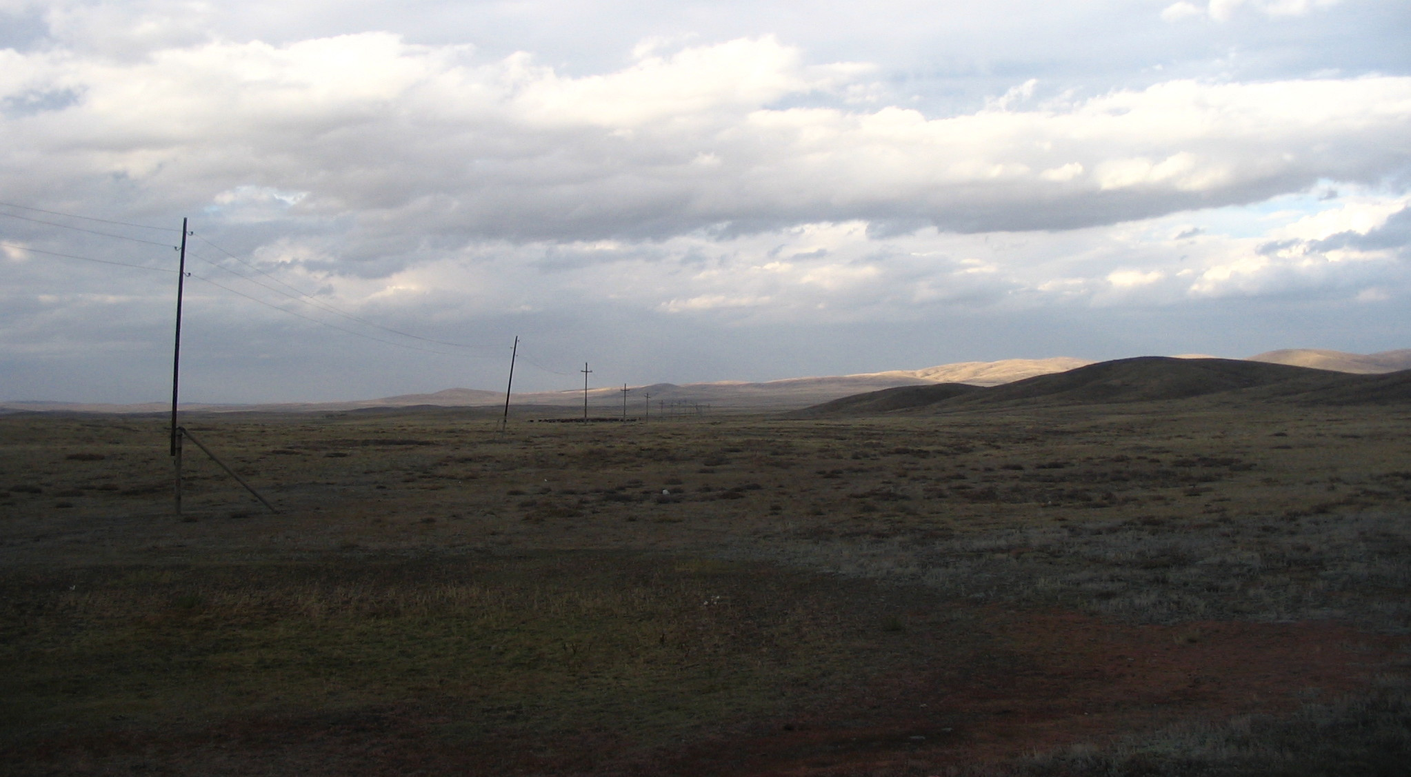 Qaraghandy Province